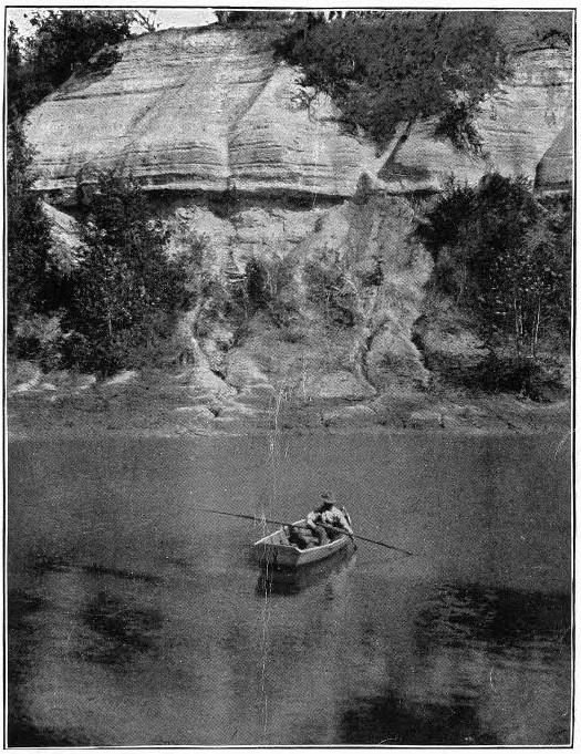 Original Caption: Chalk Bluff at Whitecliffs Landing.This area is now called White Cliffs Natural Area. The chalk (top) is now known as the Annona Chalk, and the underlying formation is the Brownstown Marl.